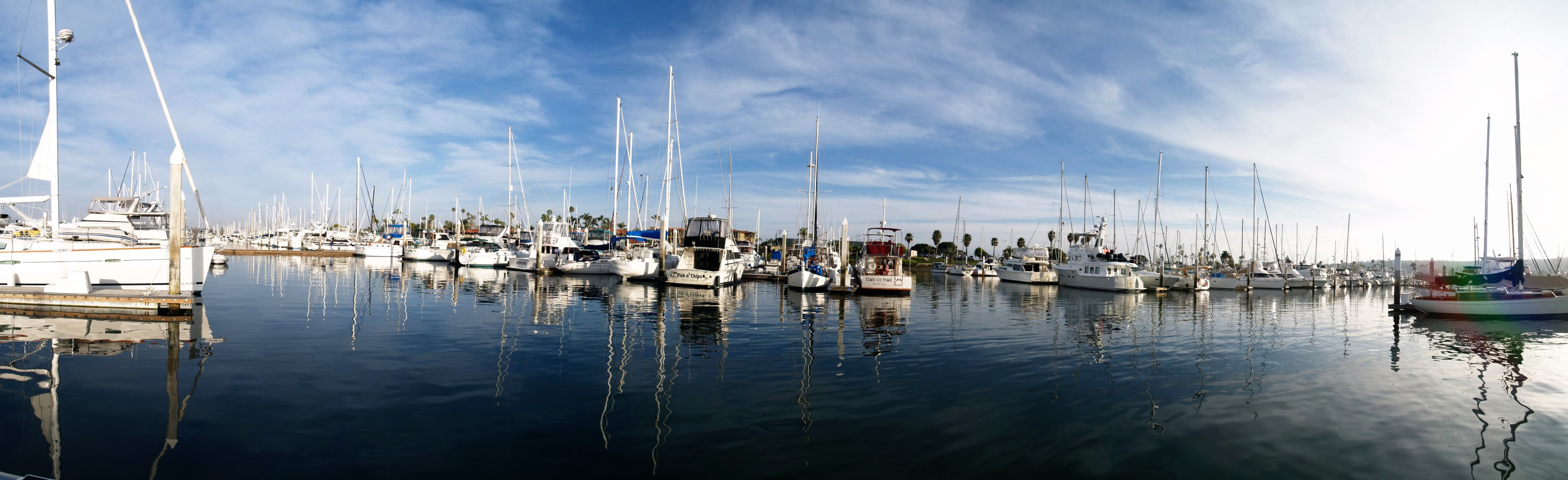 Panorama of Shelter Island Marina, San Diego, California.